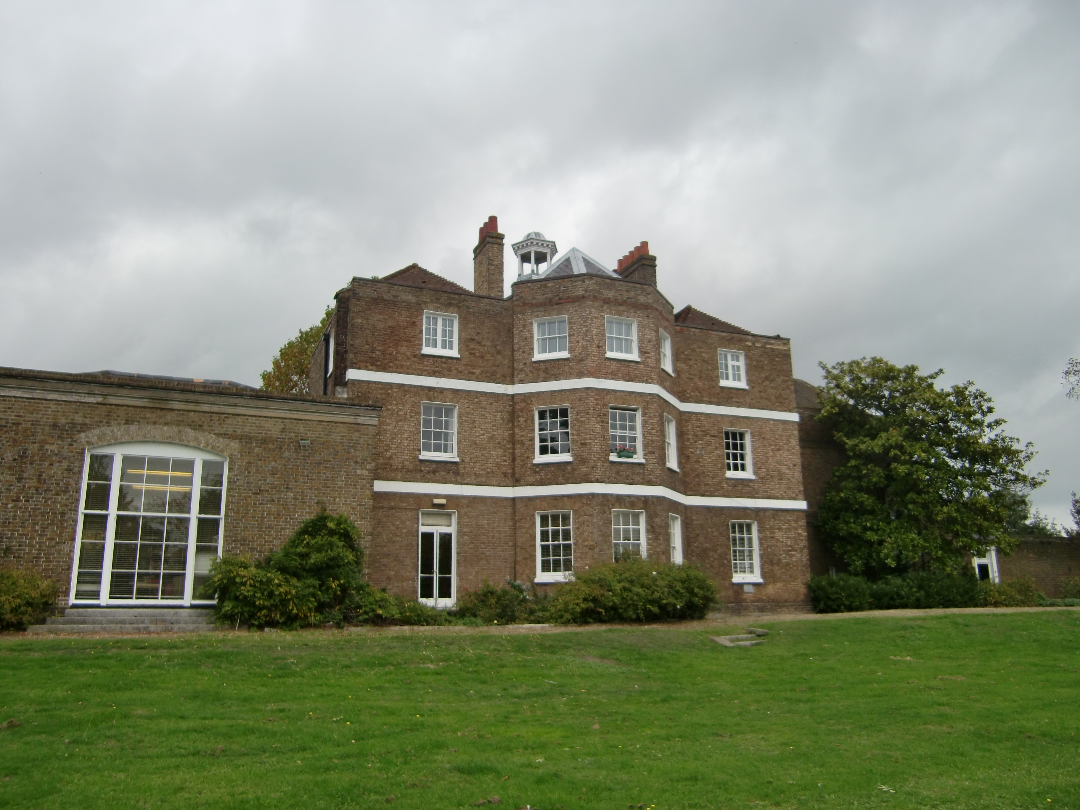 Hampton Library Rose hill, Hampton, Middx, England